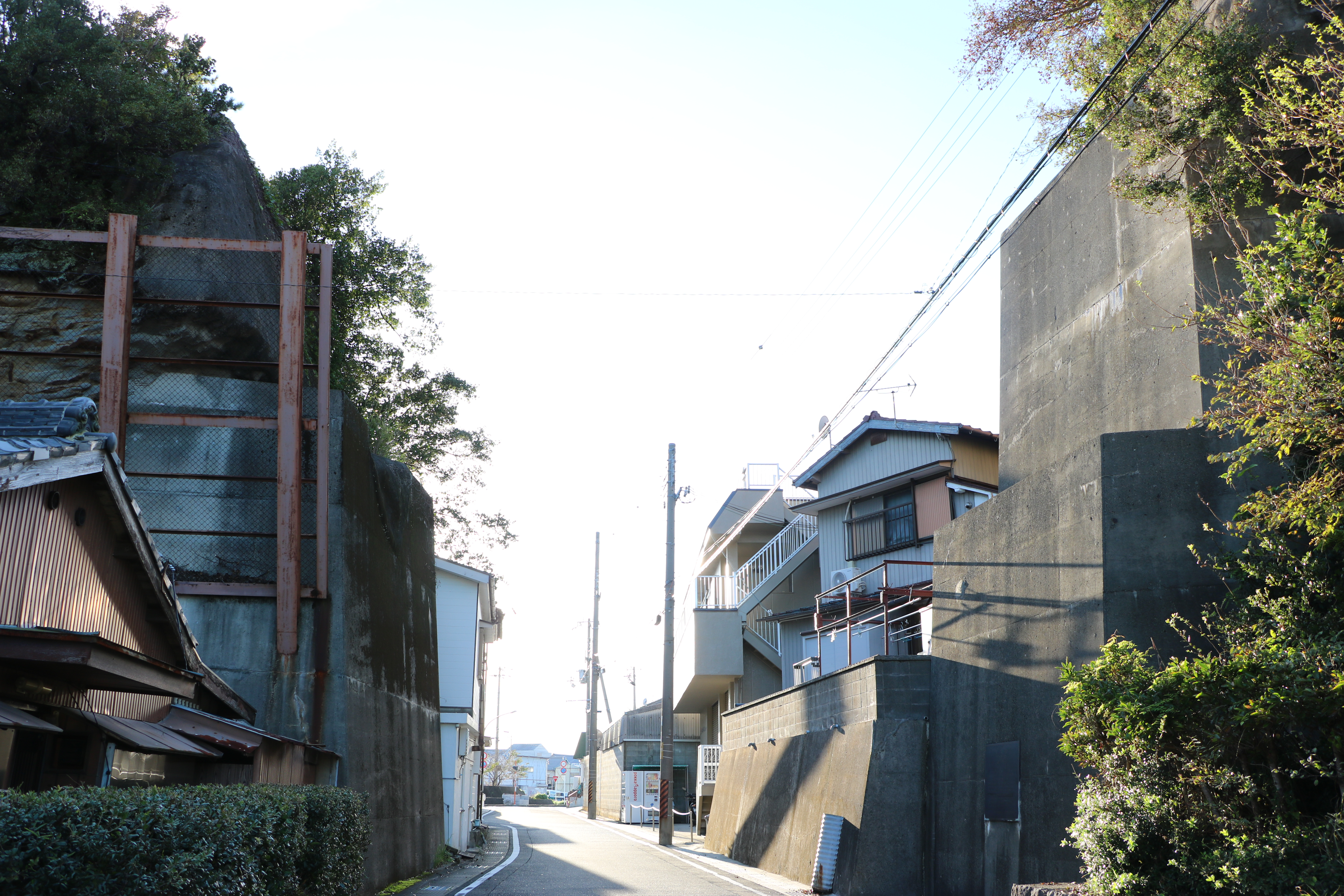 Whole view of Tanabe no Kikyogan natural bridge trace